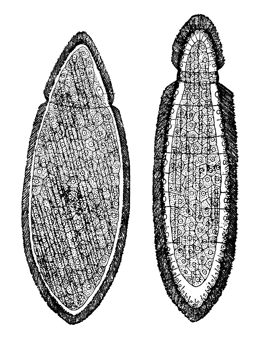 Orthonectida females: flat form (left) and cylindric form (right). Illustration from Brockhaus and Efron Encyclopedic Dictionary (1890—1907)